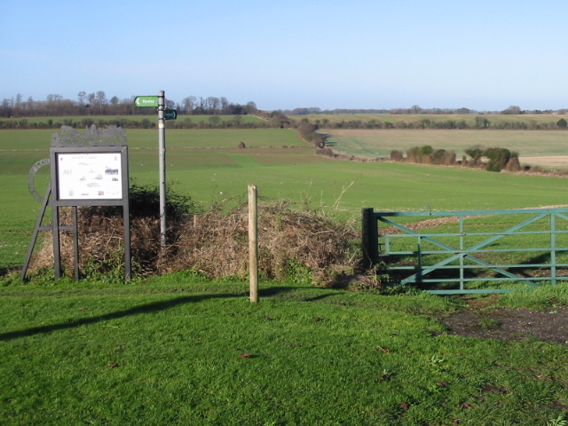 Footpath and fields The fields to the NW of Elvington and the footpath is part of The Miner's Way, which is a new walking and cycling trail exploring the rich heritage and landscape of the former East Kent Coalfield. The route uses existing footpaths and bridleways to link together the former mining communities, colliery sites and stretches of the East Kent Light Railway.